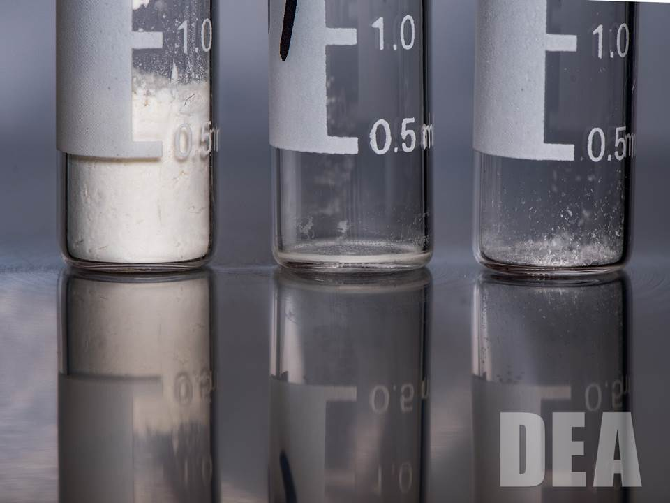 Comparasion of lethal heroin, carfentanil and fentanyl doses acording to the United States Drug Enforcement Administration.